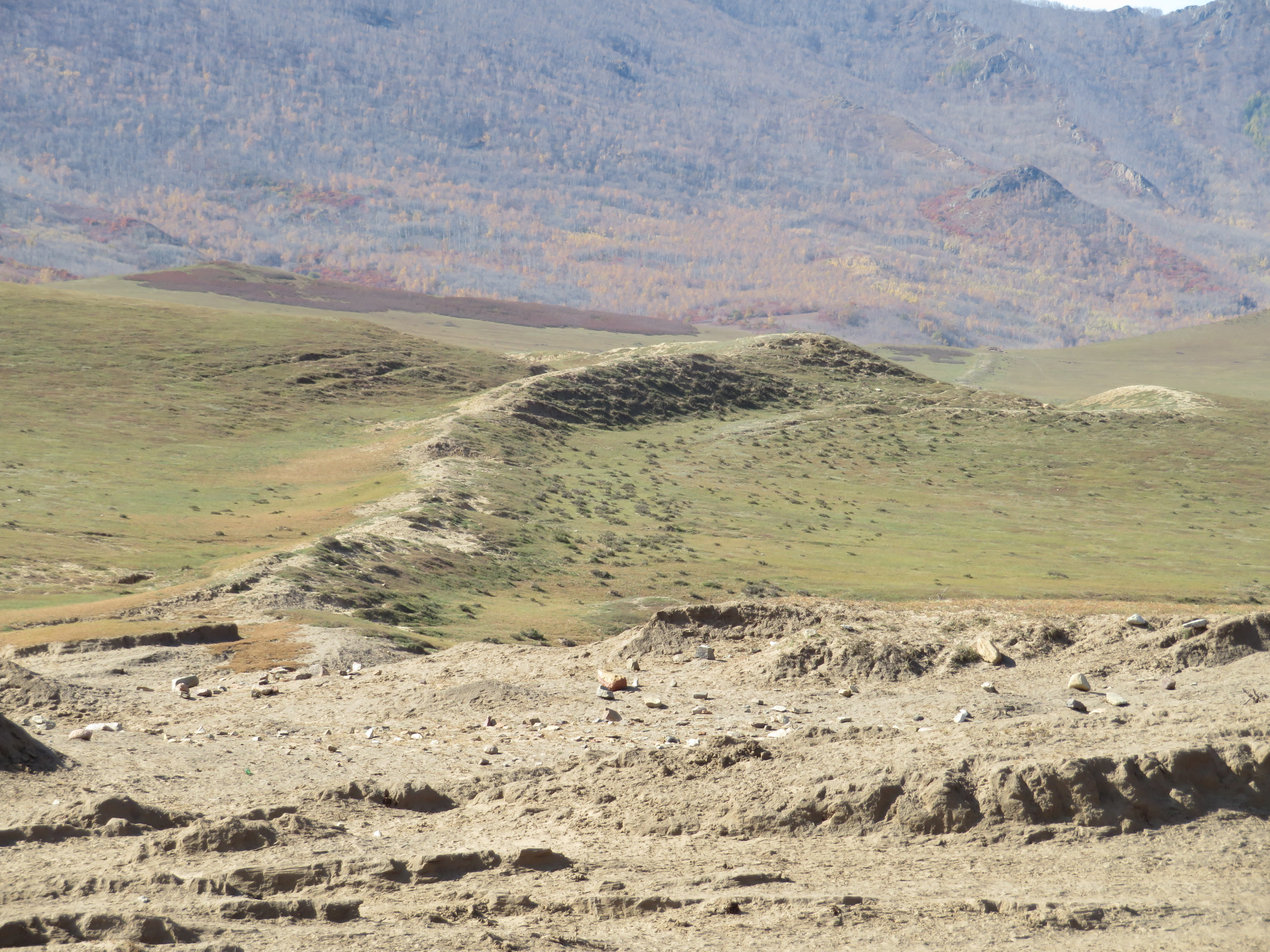 Jin dynasty earthen boundary wall (金界壕遗址) north of Qingzhou (慶州), in modern Bailin Youqi, Inner Mongolia. The foreground is the "road" towards the Qingling mausoleums.